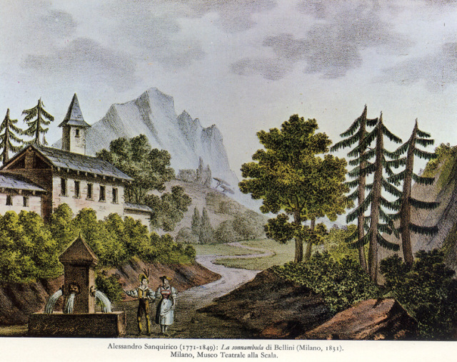 La sonnambula-Sanquirico set design-act 2-sc2